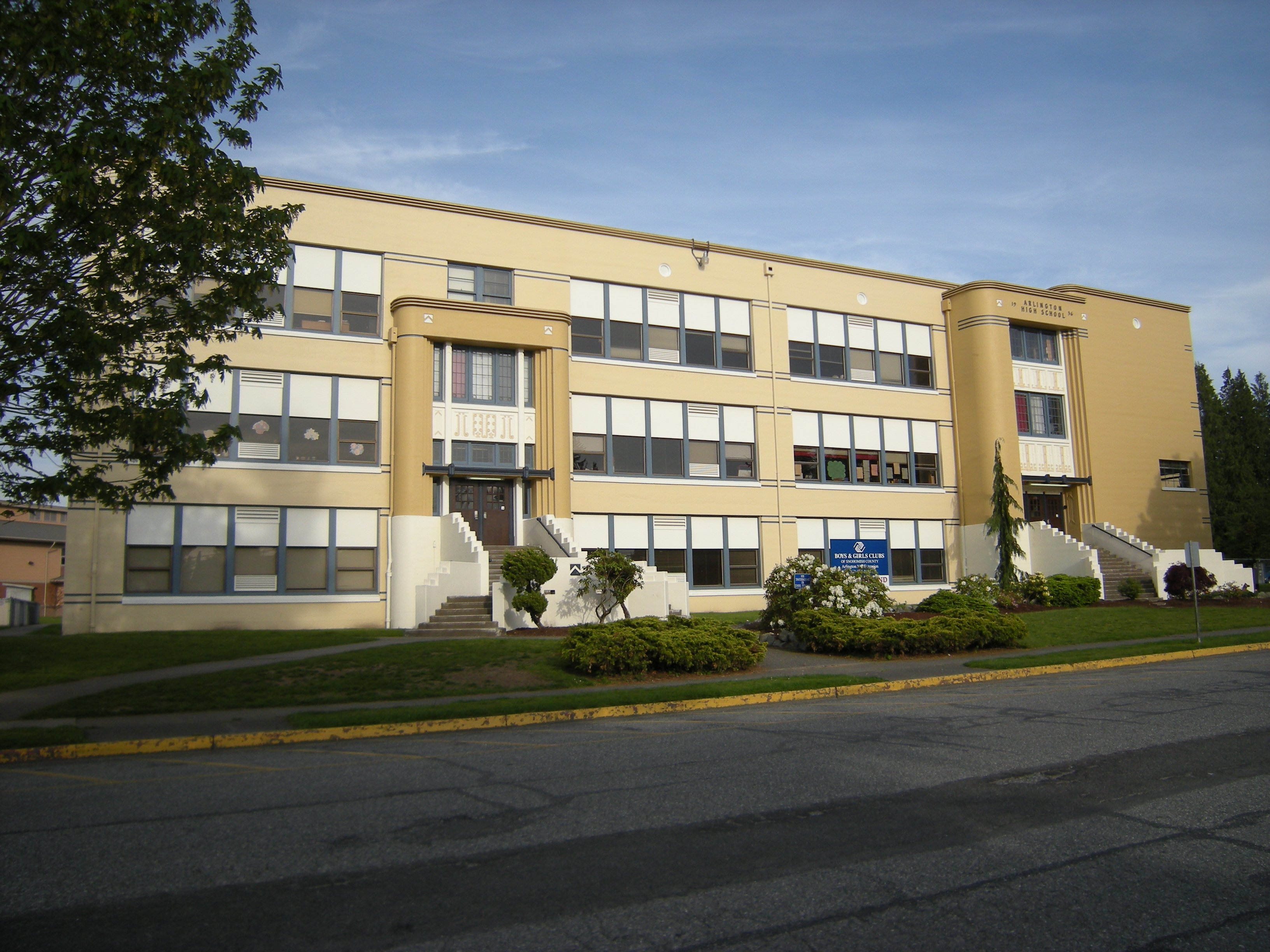 The old Arlington, Washington high school, erected 1936, with some Art Deco details. Now used by a Christian school, the local Boys & Girls Club, and some other groups.